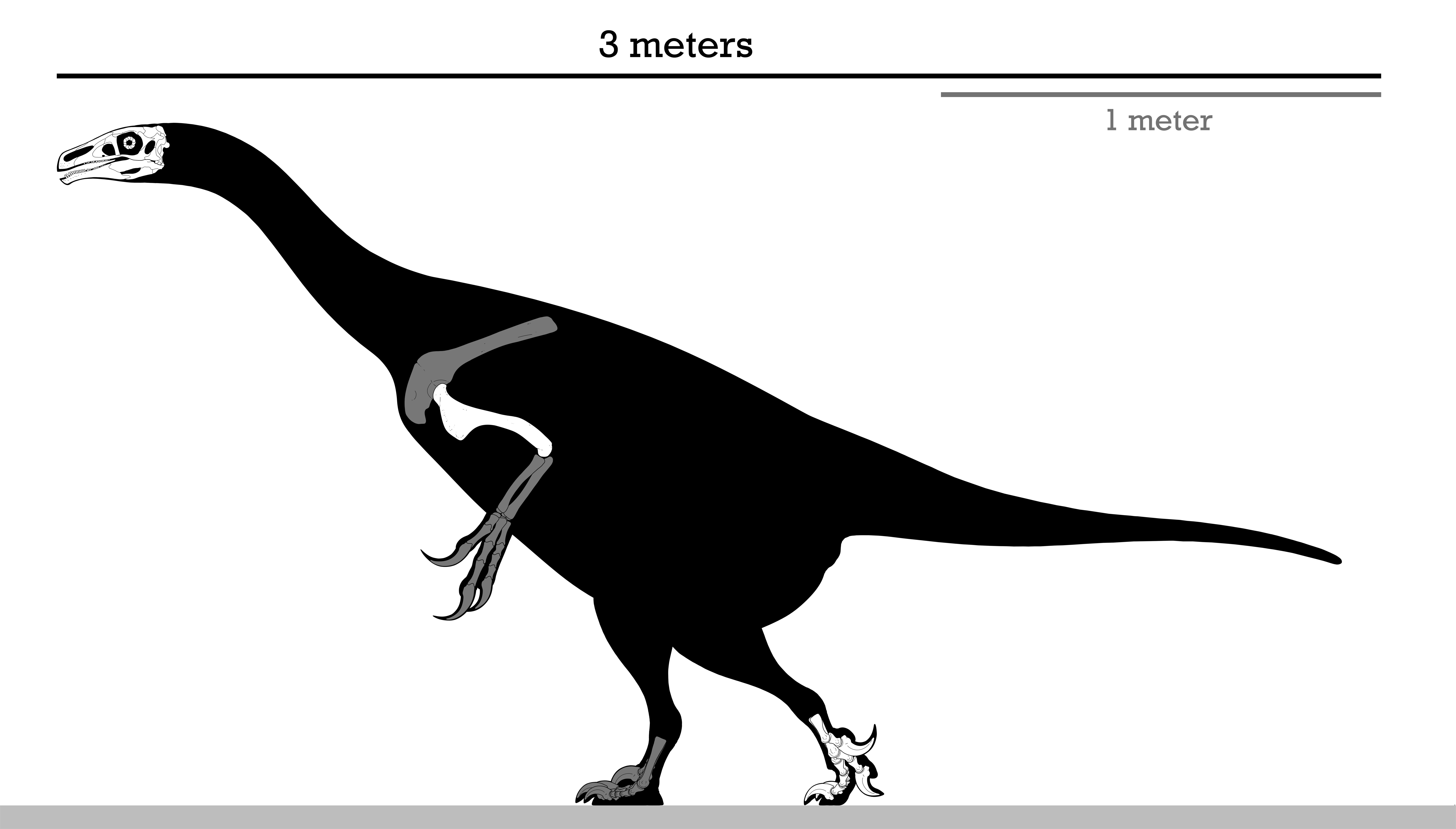 Skeleton reconstruction of the holotype of the therizinosaur Erlikosaurus andrewsi, MPC-D 100/111. It was unearthed from the Bayan Shireh Formation, at the Bayshin Tsav locality. The holotype is very fragmentary, consisting of:[1][2] Complete skull, left humerus and right pes. Several cervical vertebrae fragments. Although fragmentary, the skull of Erlikosaurus has been greatly useful as a reference for other therizinosaurs. The articulated skull has become the focus in many studies due to its exceptional preservation, such as bite force estimates[3], mouth opening[4], niche partitioning[5], and cerebral capacity.[6] The cervical vertebrae were not illustrated in the original descriptions, and the count is unknown, however, Perle claimed that they resemble those of the contemporary relative Segnosaurus.[2] Color Key Known Unknown ________________________________________________________________________________________________________________